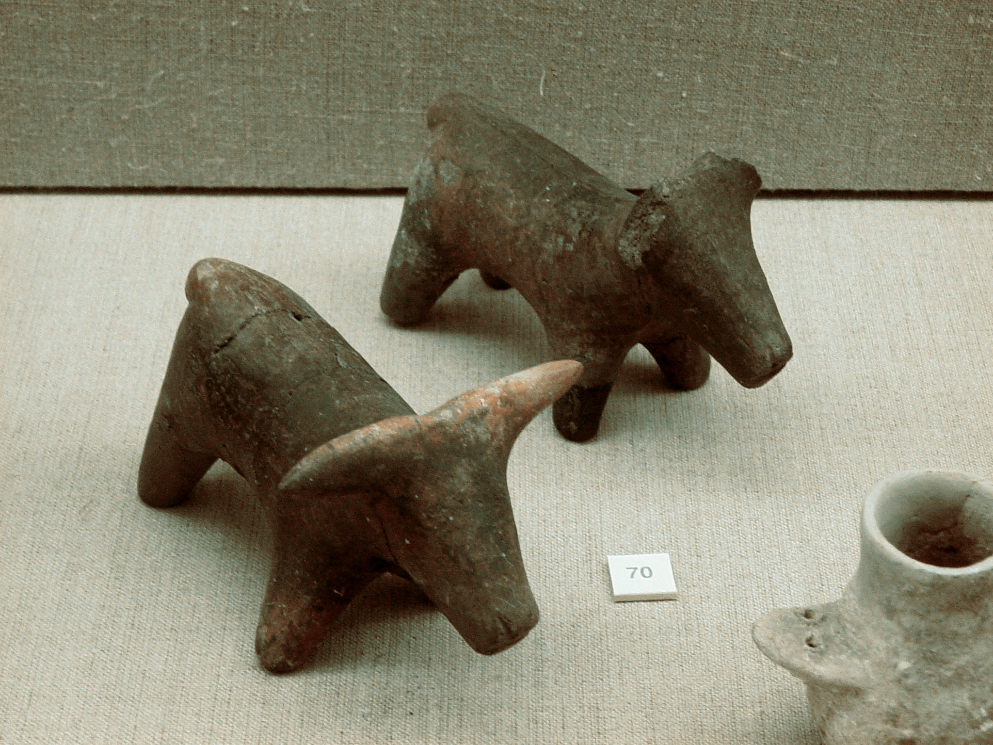 Artistic terracotta objects, Museum of Cycladic Culture, Akrotiri excavation artifacts, Santorini, Cyclides, Hellas (Greece)